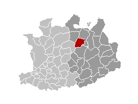 Map made by gebruiker:LennartBolks and it is in the public domain.